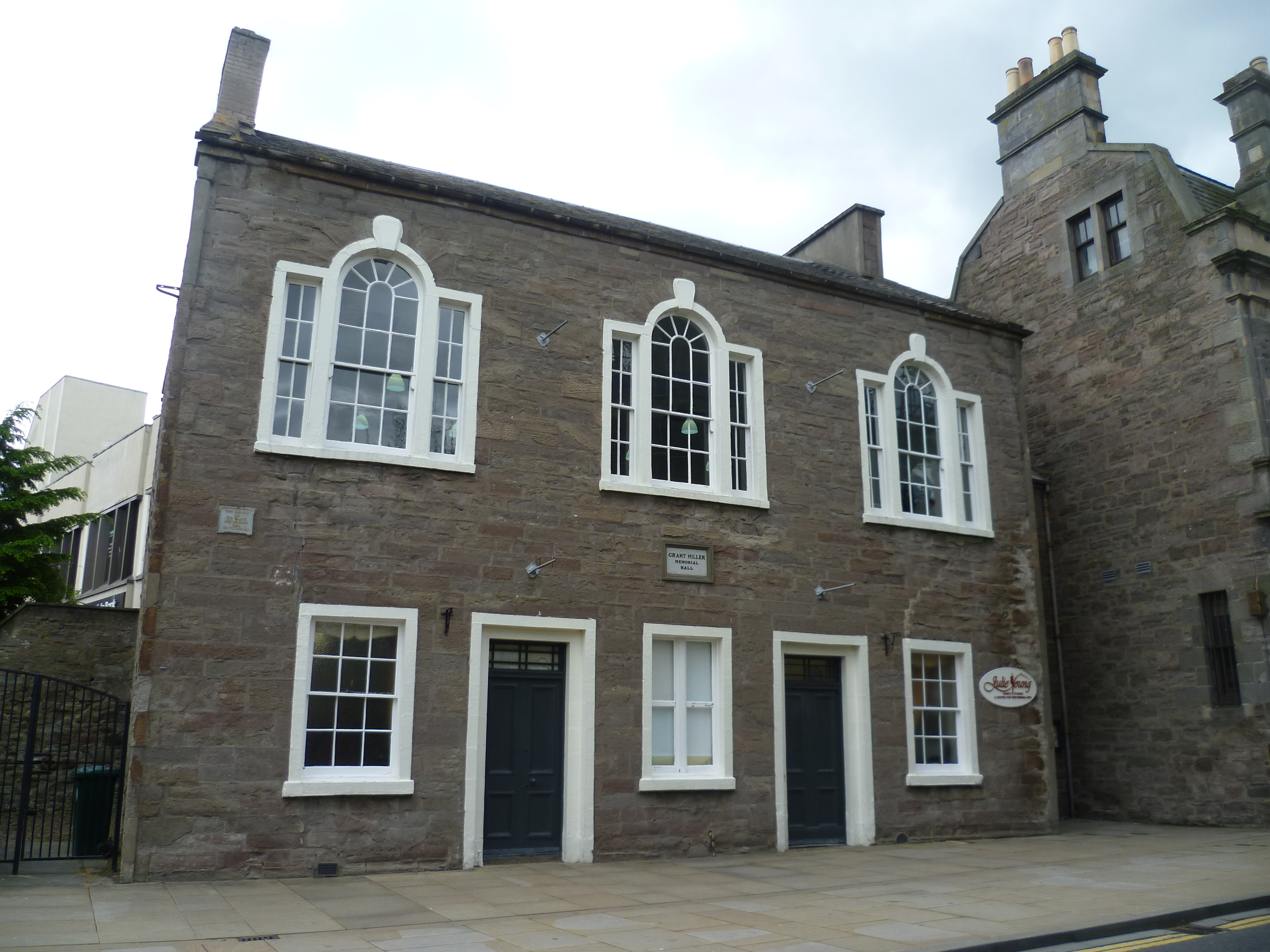 Glasite Meeting House, High Street, Perth, Scotland